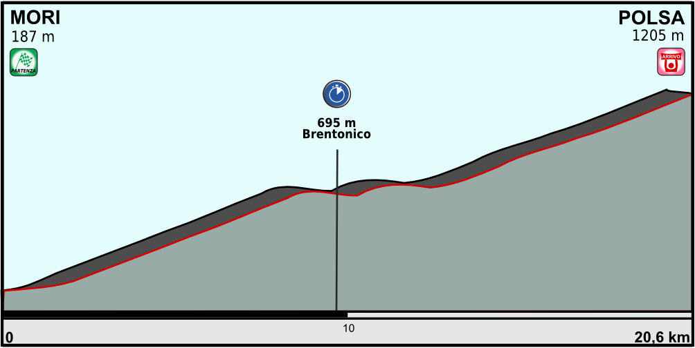 Giro d'Italia 2013 - stage profile # 18